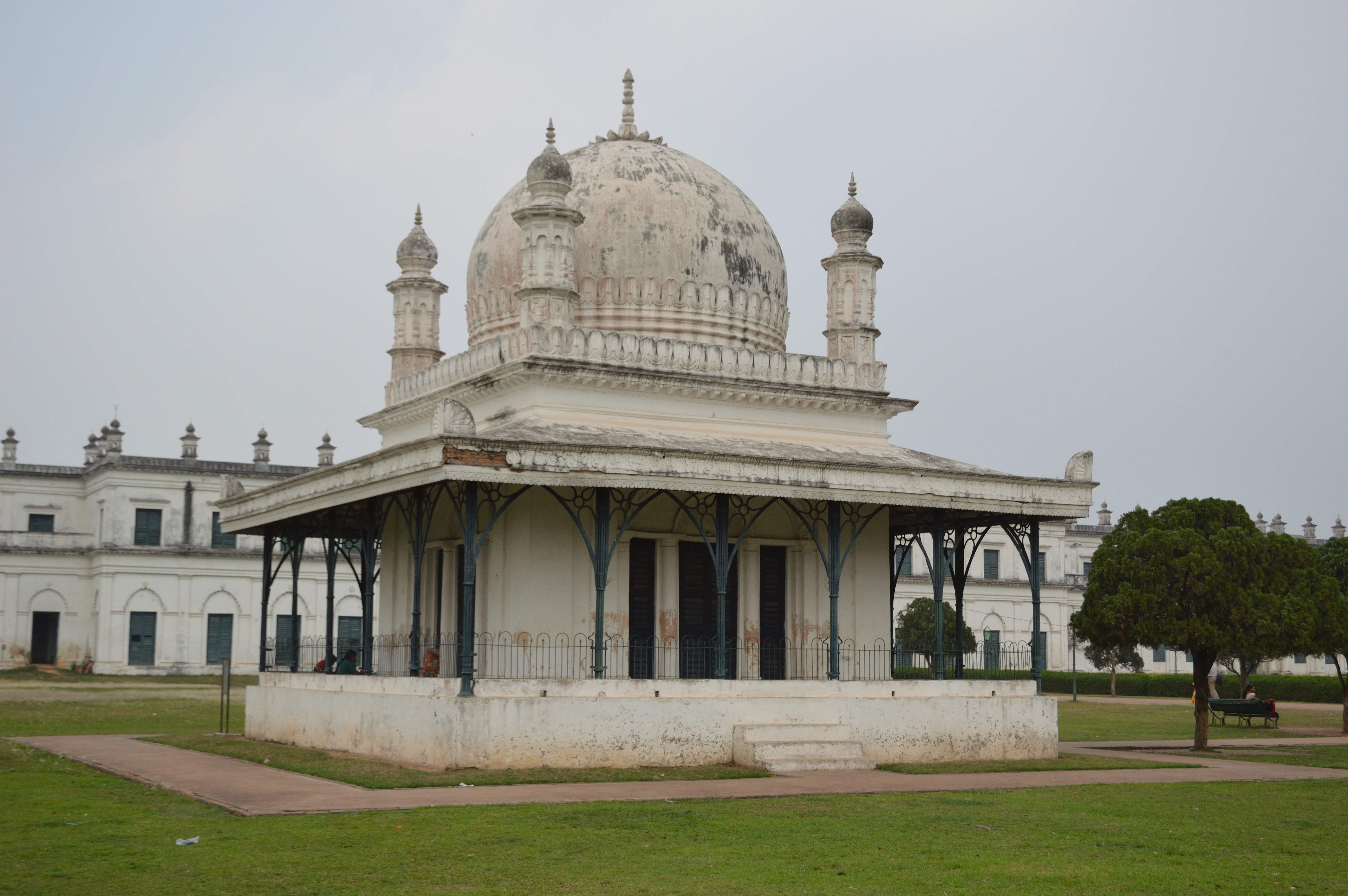 This photograph was taken in Murshidabad.